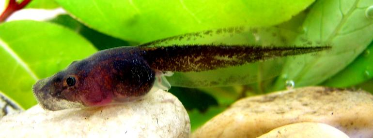 Scaphiophryne gottlebei